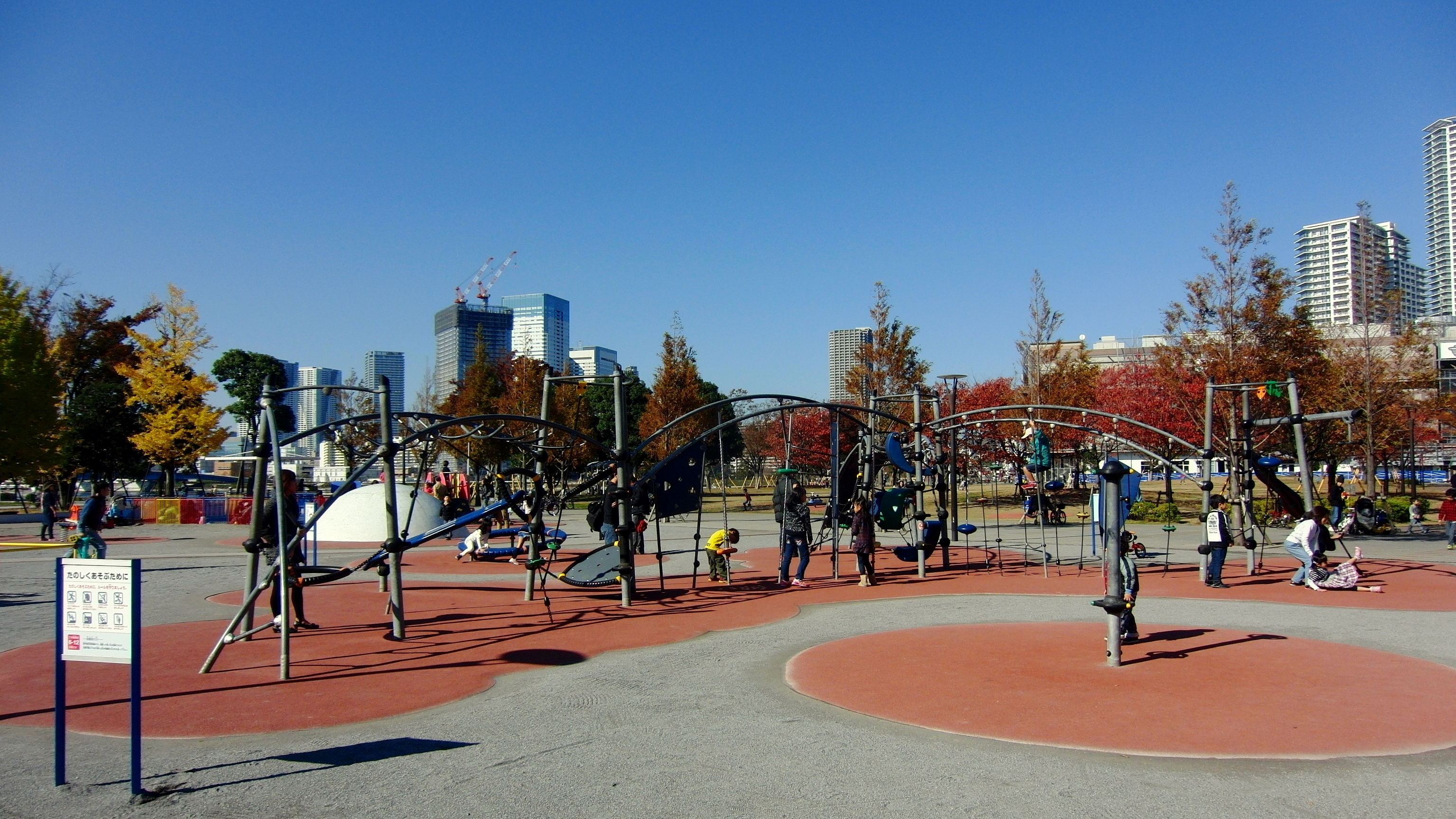 Toyosu Park, Toyosu, Kōtō, Tokyo, Japan